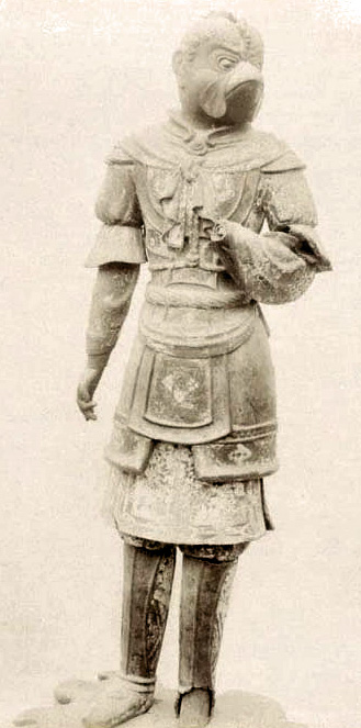 Karura, as one of Buddhist deities which is based on Garuda.